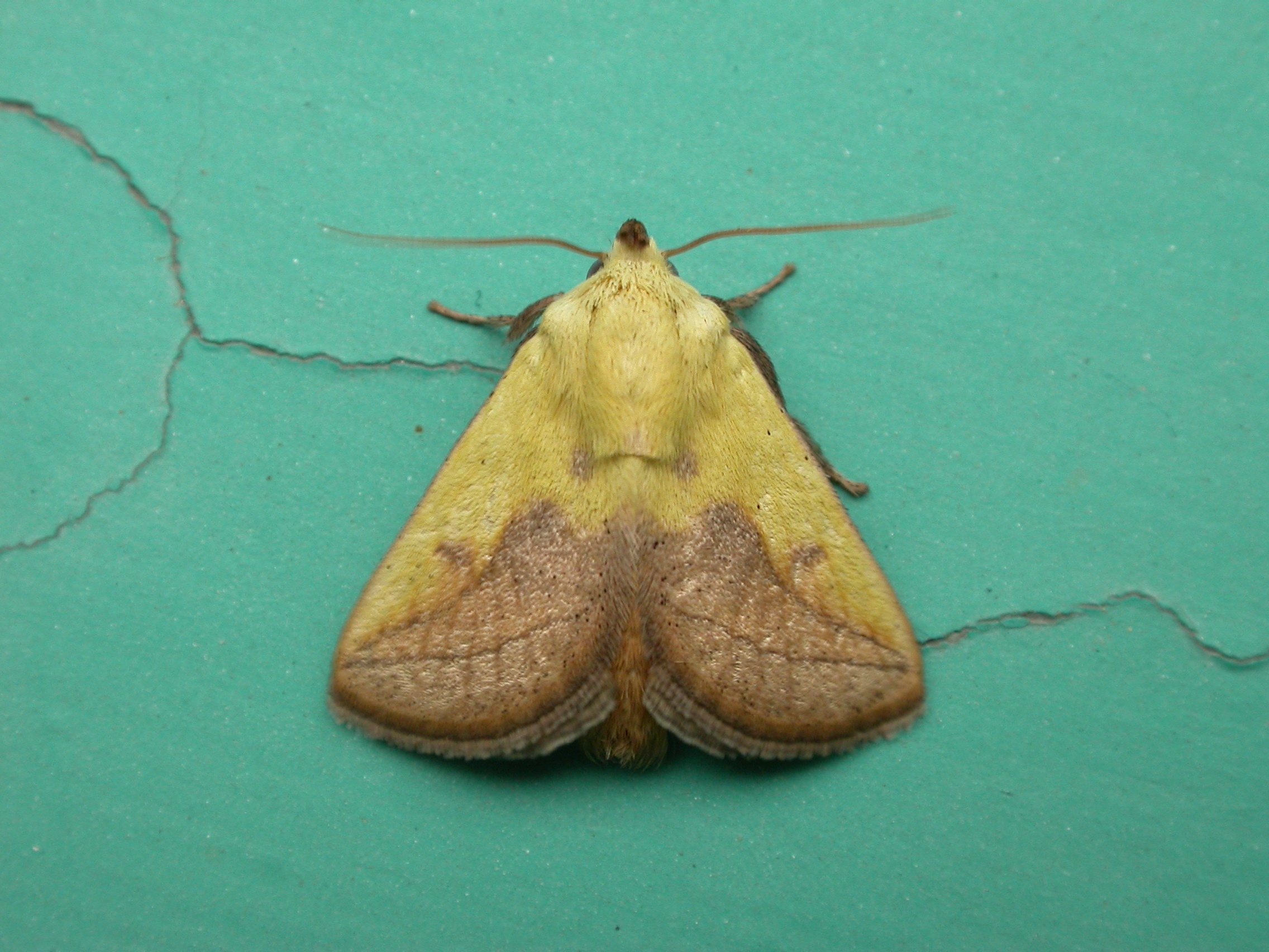 Monema flavescens Walker, 1855, Fragrant Hill Empark Hotel, Haidian District, Beijing, 25 July 2012